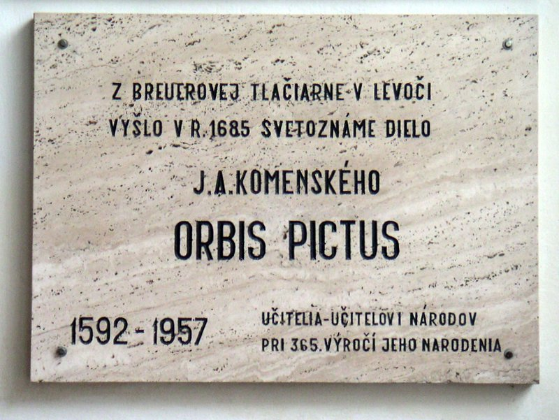 Plaque commemorating the publication of Orbis Pictus in Levoca. I took this photo.